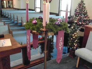 Sitting next to the pulpit is an Advent wreath in the chancel of Broadway United Methodist Church, New Philadelphia, Ohio, USA. The Advent wreath consists of four coloured candles of the same size, arranged around a larger white Christ candle. One of the surrounding candles is rose coloured, for Gaudete Sunday or Joy Sunday, the beginning of the third week in Advent. The parament next to this rose coloured candle has the word Joy printed on it.